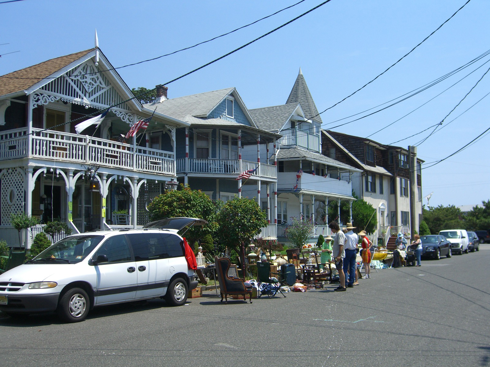 A street in Ocean Grove, New Jersey.